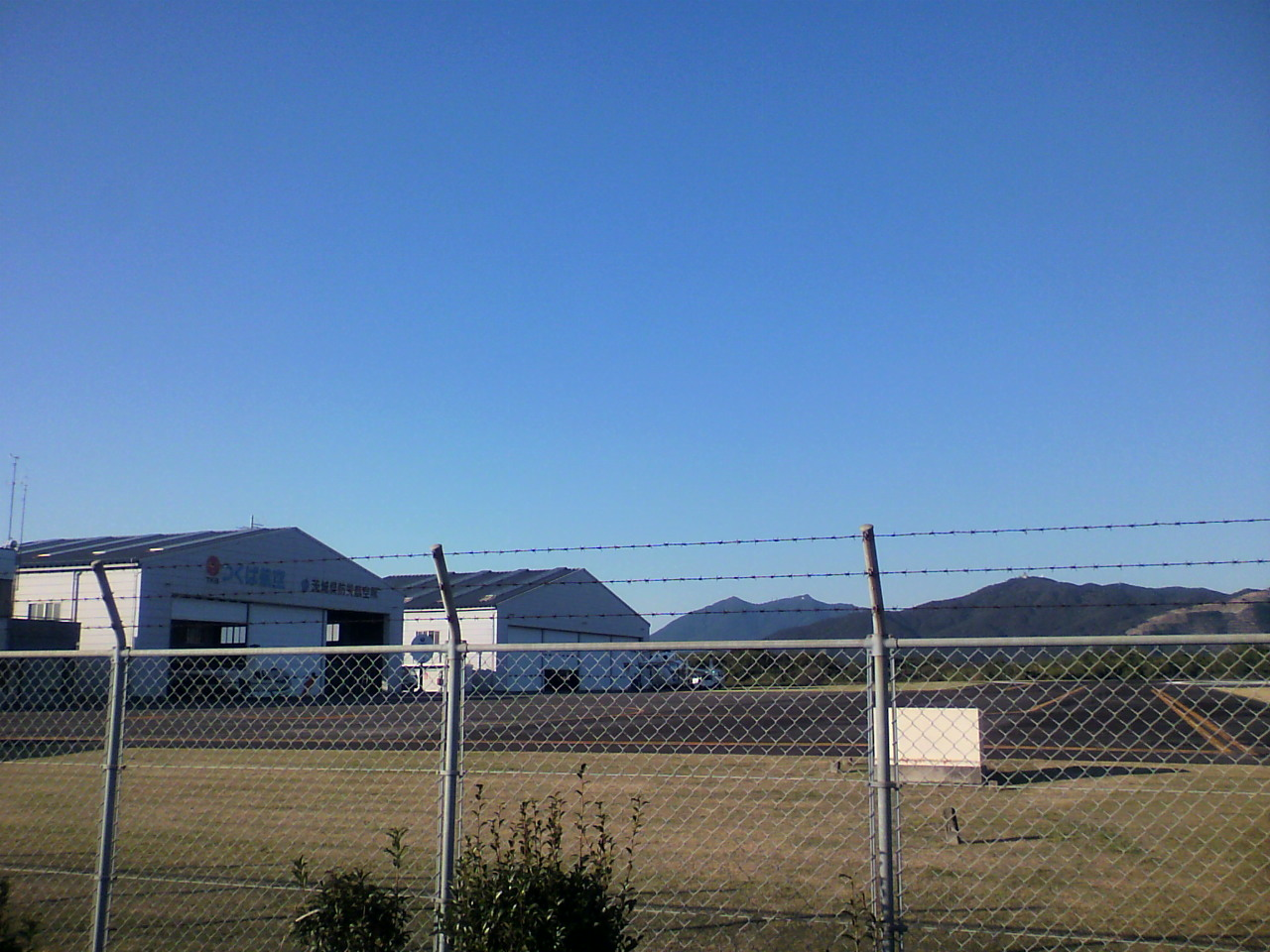 This is a heliport which is located in Tsukuba, ibaraki, Japan.